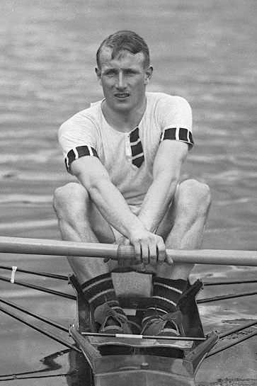 Belgium: Olympic Games At Antwerp. Jack Beresford Jr. of England.